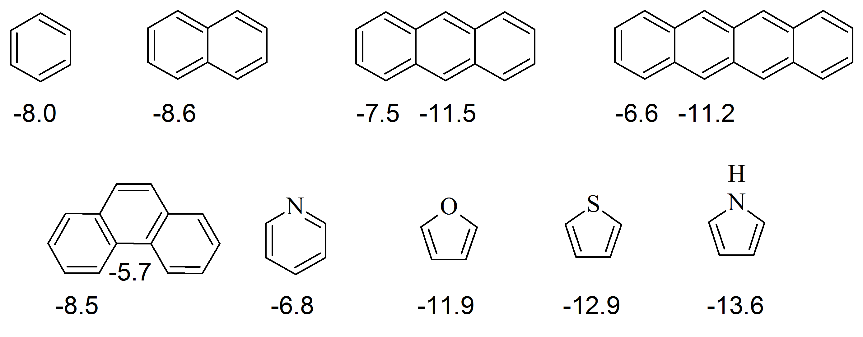 NICS(0) values of aromatic compounds calculated at B3LYP/6-311+G**